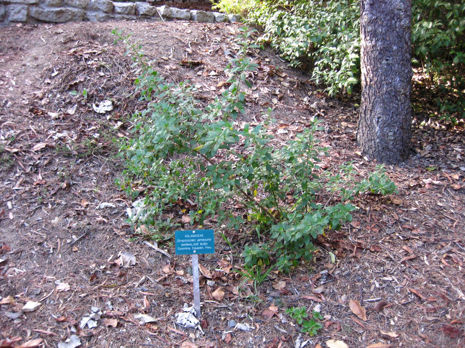 Photographed Mildred E. Mathias Botanical Garden at UCLA (Los Angeles, California) in November